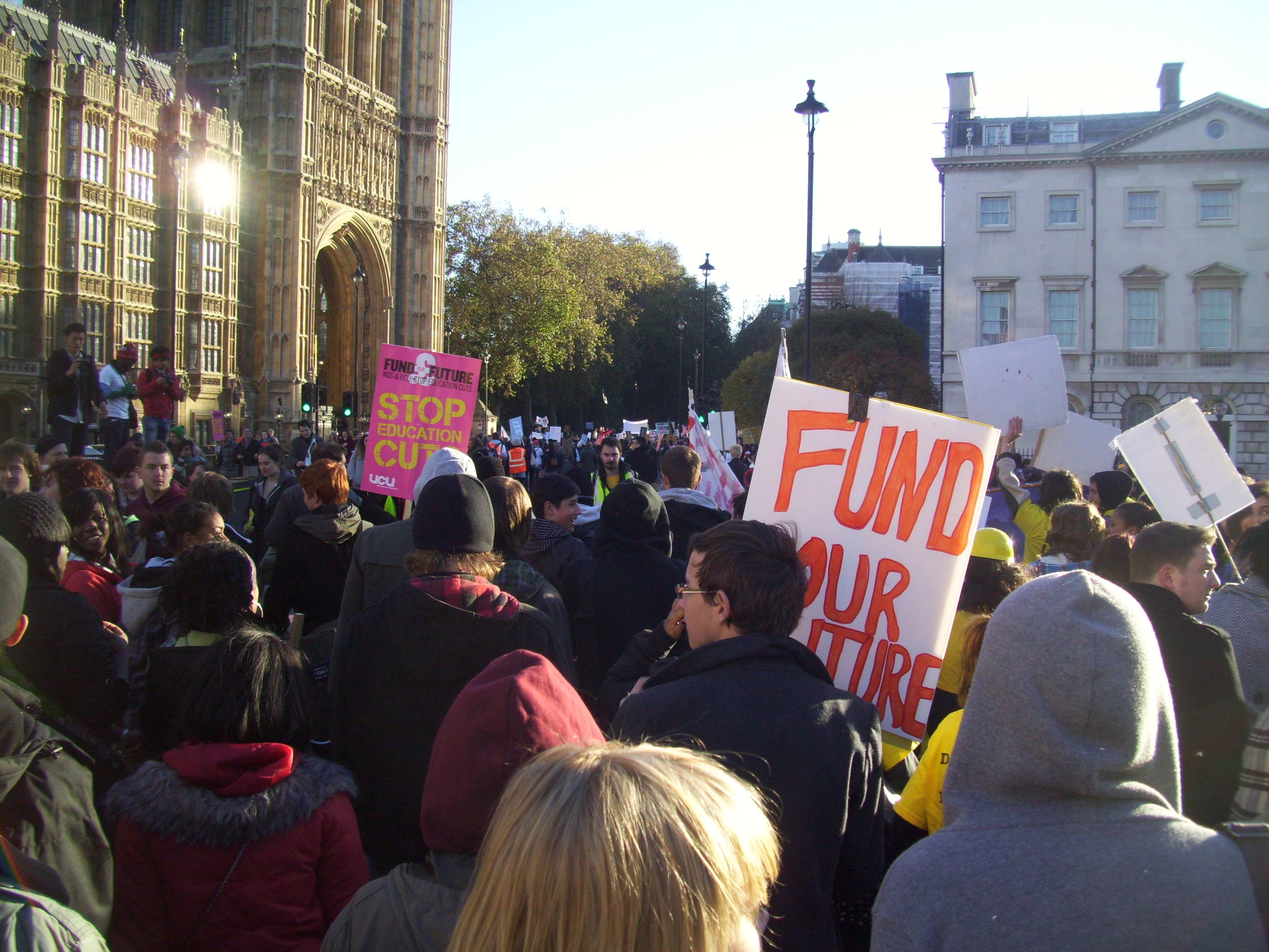 Student demonstrators march past the London Houses of Parliament in opposition to planned spending cuts to further education and an increase in tuition fees, November 2010.